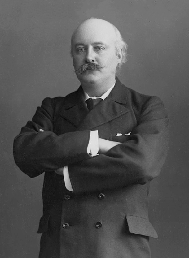 (Charles) Hubert (Hastings) Parry (1848-1918) English composer and Director of the Royal College of Music from 1894 until his death. From The Cabinet Portrait Gallery (London, 1890-1894)